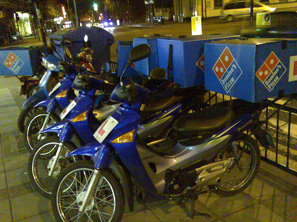 On the High Road in East Finchley, London N2